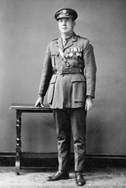 Full length portrait of George Ingram VC MM, an Australian recipient of the Victoria Cross during the First World War